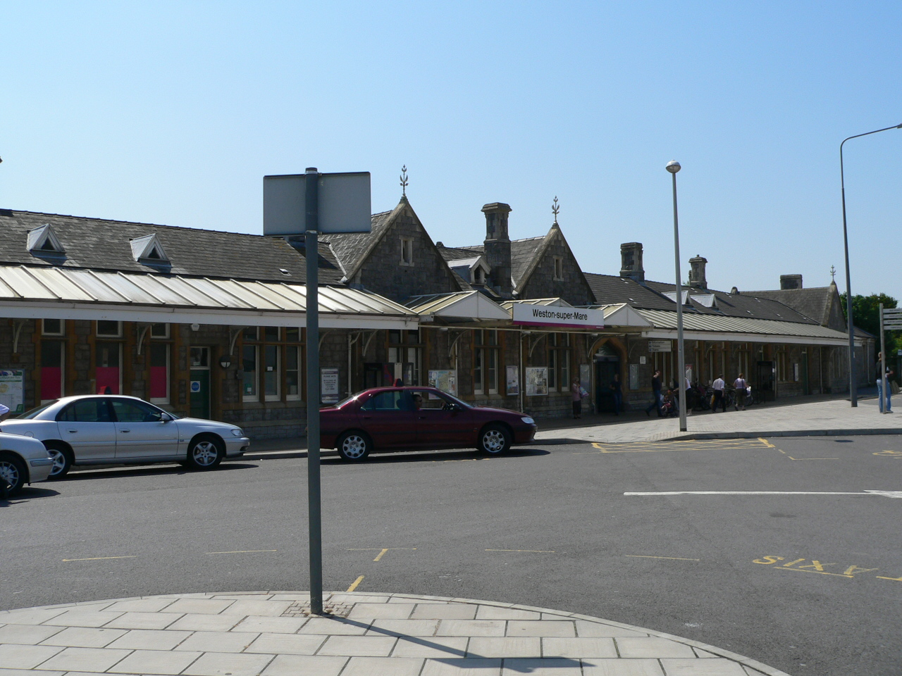 The victorian exterior of Weston-super-Mare railway station.